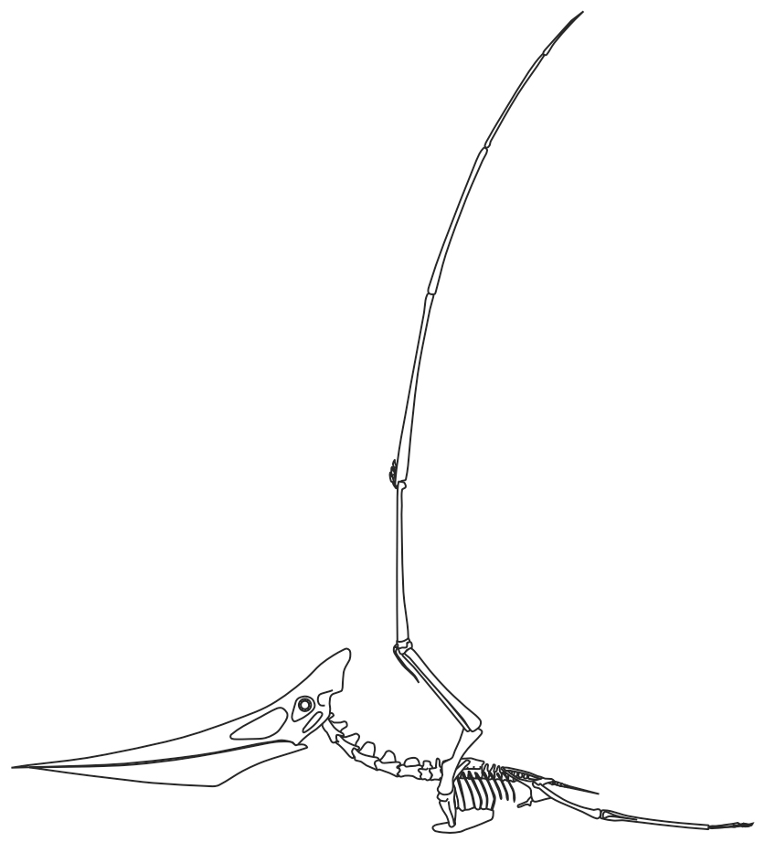 Skeletal restoration of female P. longiceps.